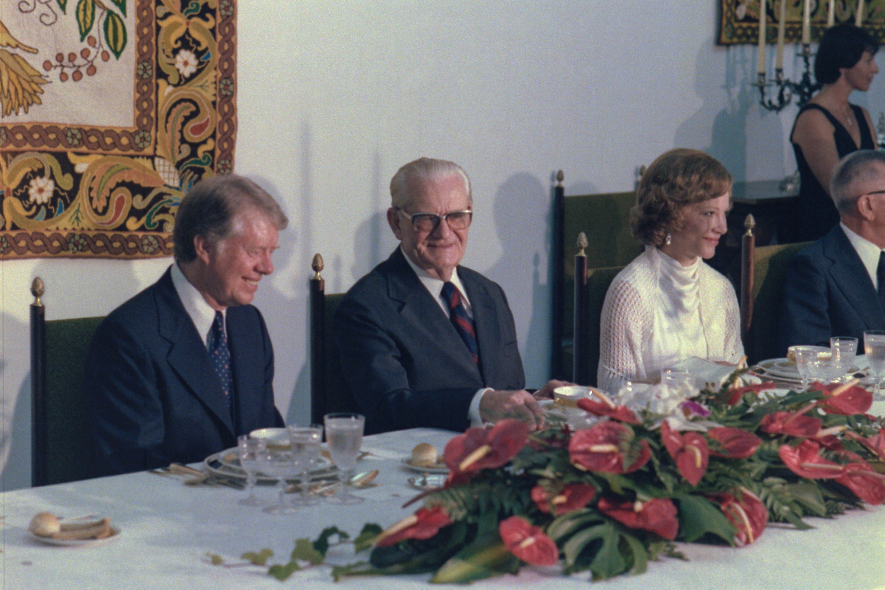 Brazilian President Ernesto Geisel hosts a State Dinner for Jimmy Carter and Rosalynn Carter, March 29, 1978.